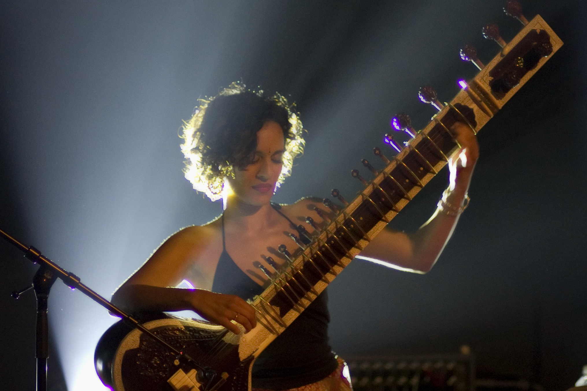 Anoushka Shankar at the Global Rhythm 15th Anniversary Party